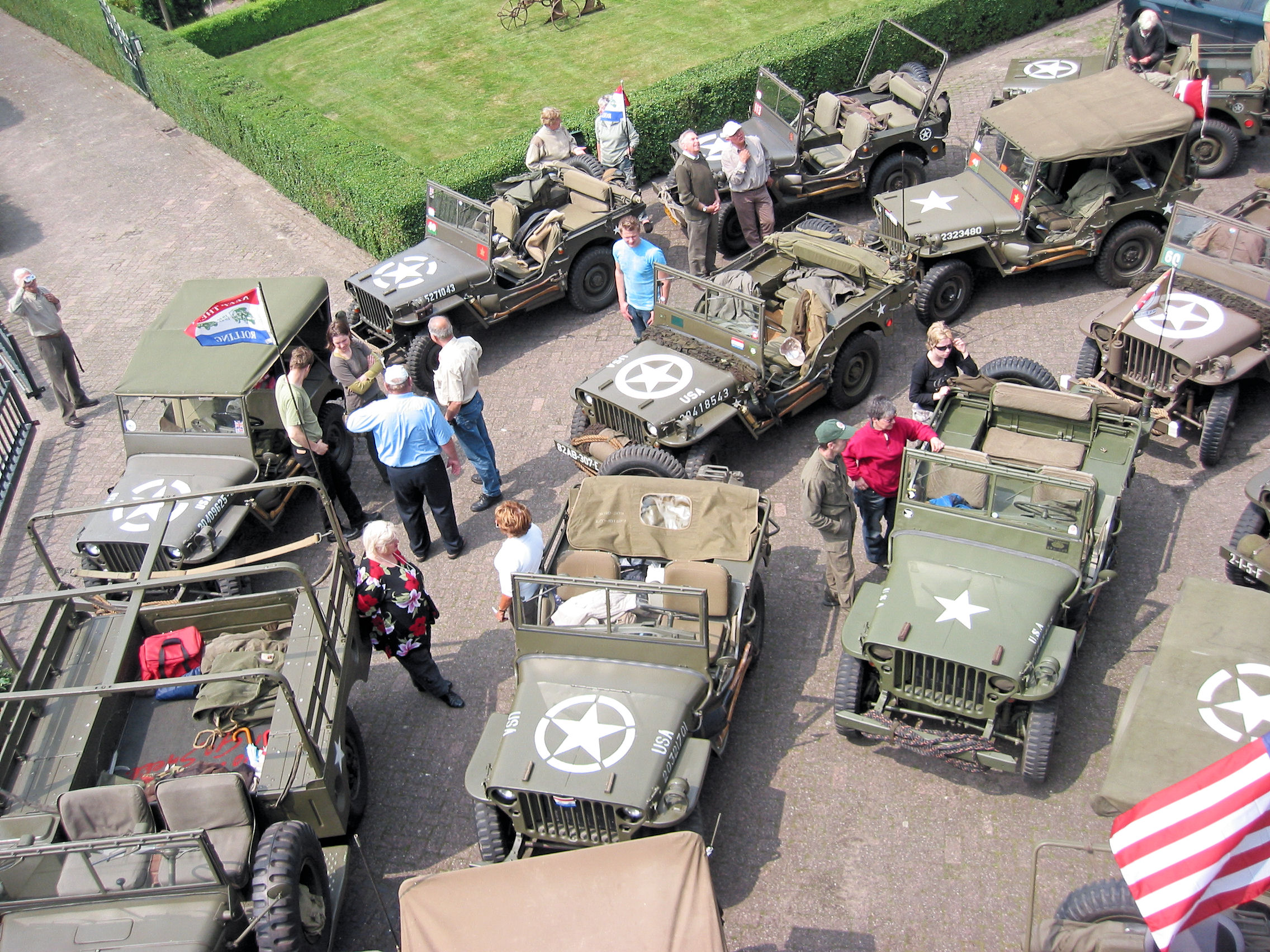 Keep them rolling